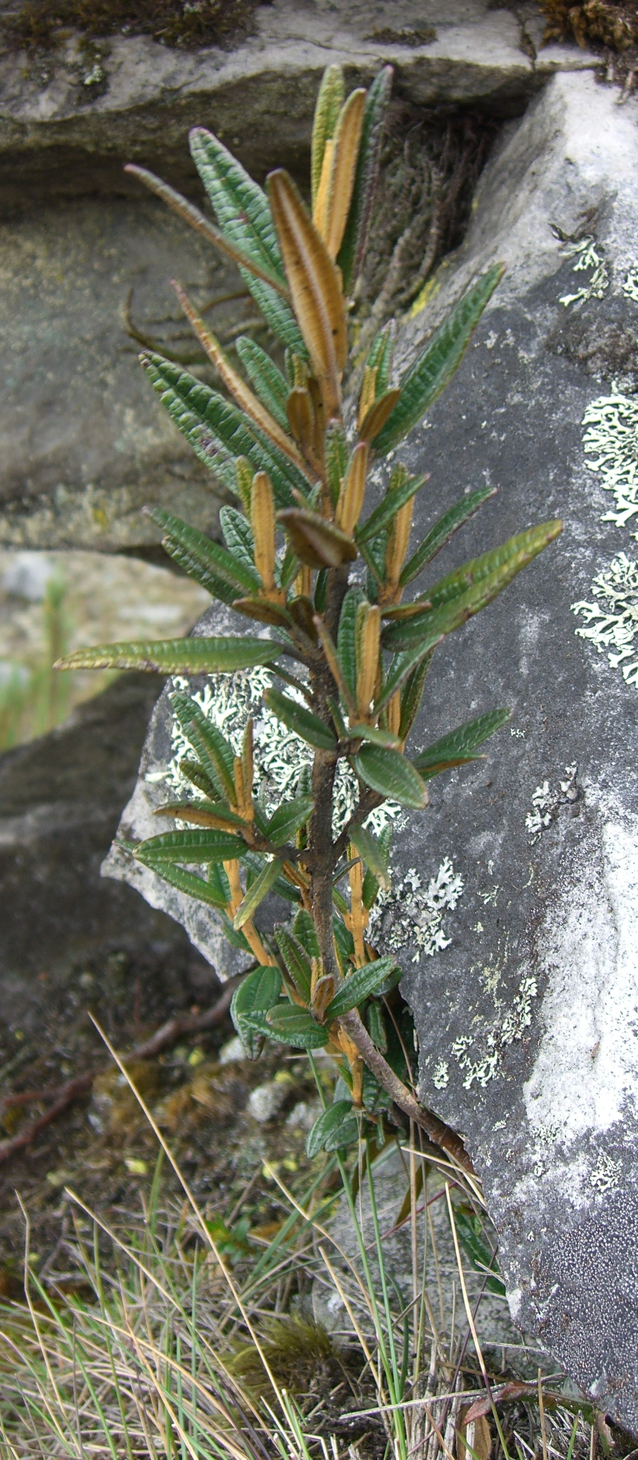 Please report references to .